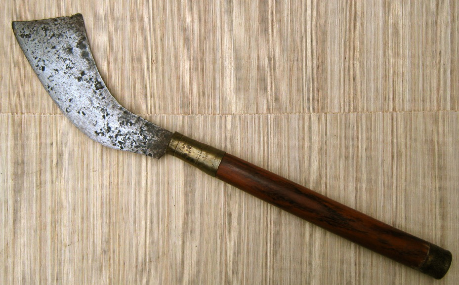 This Philippine blade is from the lumad people in Mindanao in southern Philippines. Lumad refers to the indigenous non-Christian and non-Muslim peoples of Mindanao. The blade is called panabas. The term literally means 'chopping device' in the local dialects. The blade is used both as a weapon and as a device in chopping off body parts in the meting out of justice. The example panabas has brass ferrule with anthropomorphic design. Muslims are prohibited to make representations of humans and as such, anthropomorphic designs cannot be found in Moro weapons. Overall length: 568 mm (23.4 inches); Blade length: 227 mm (8.9 inches); Maximum blade thickness: 6 mm (15/64 inch) Another example of a lumad panabas is here. Other uploaded materials by the same author are here: (a) Luzon weapons; (b) Visayan weapons; (c) Moro weapons; and (d) Lumad (non-Moro Mindanao) weapons